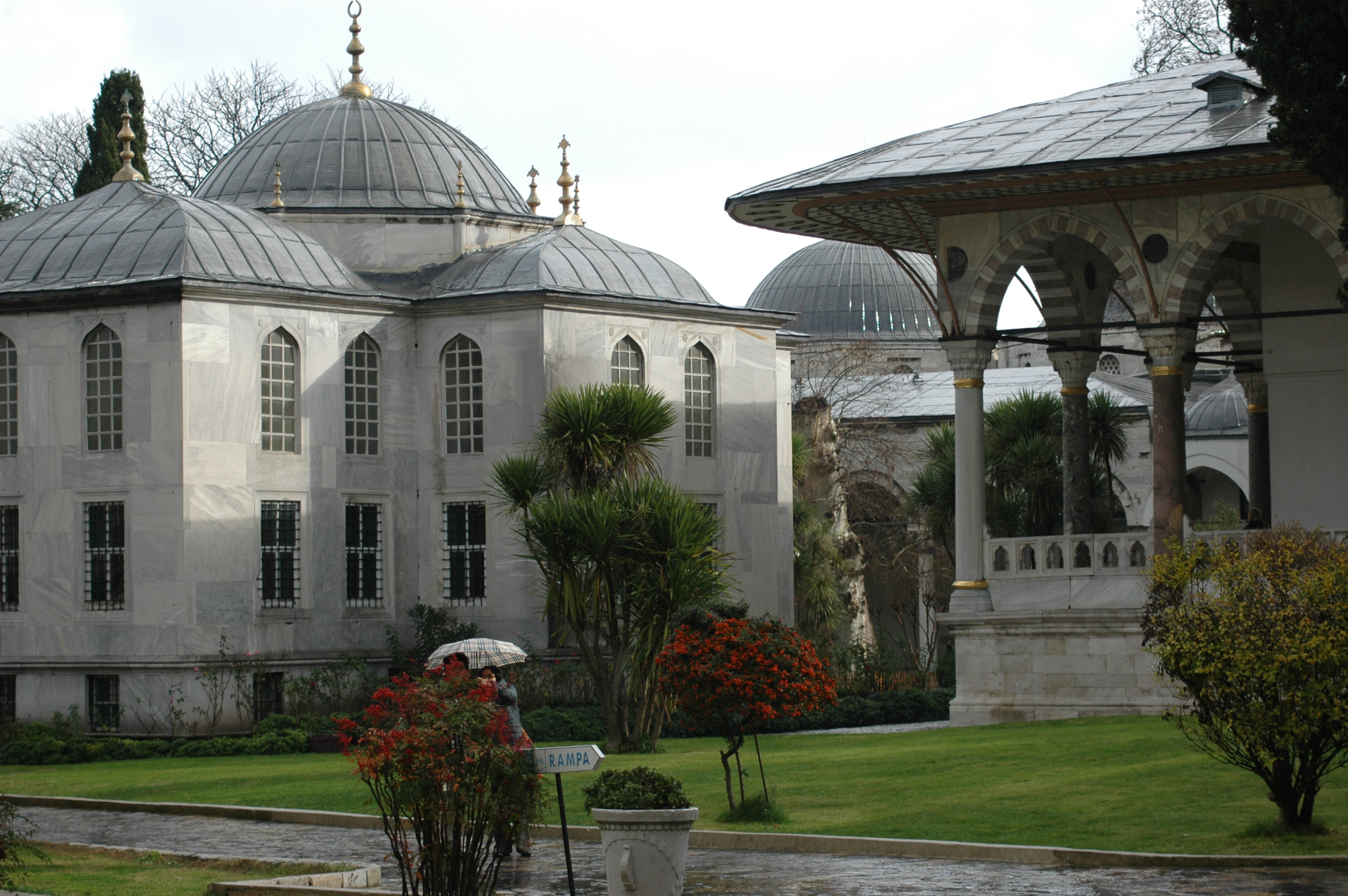 Library of Ahmed III on the left, the Audience Chamber on the right. Located in the Third Court; Topkapi palace; Istanbul, Turkey